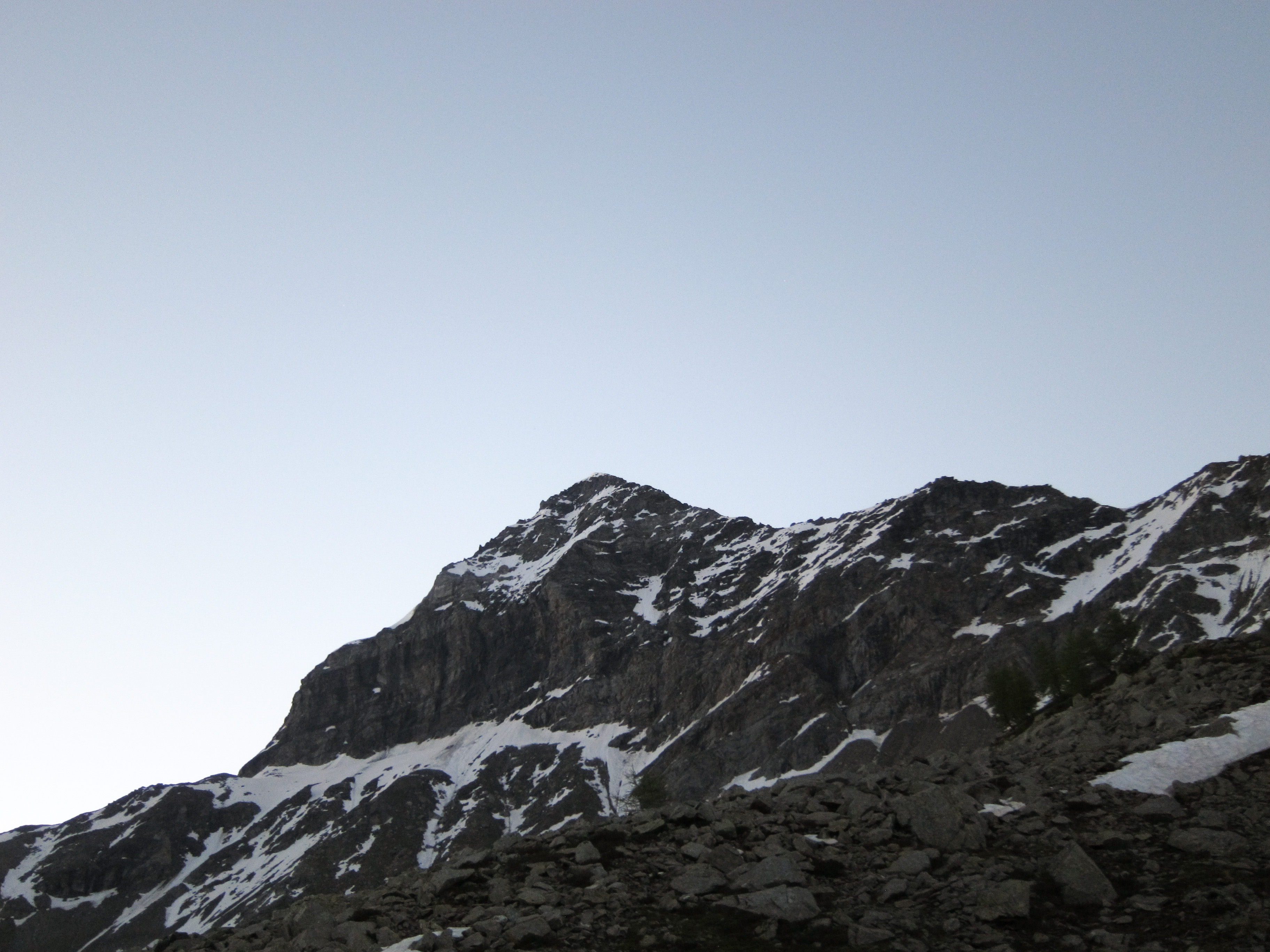 Pizzo Scalino mountain (3.323 m s.l.m.) in Valmalenco, Sondrio, Lombardia, Italy. Foto scattata il 2018-06-09.